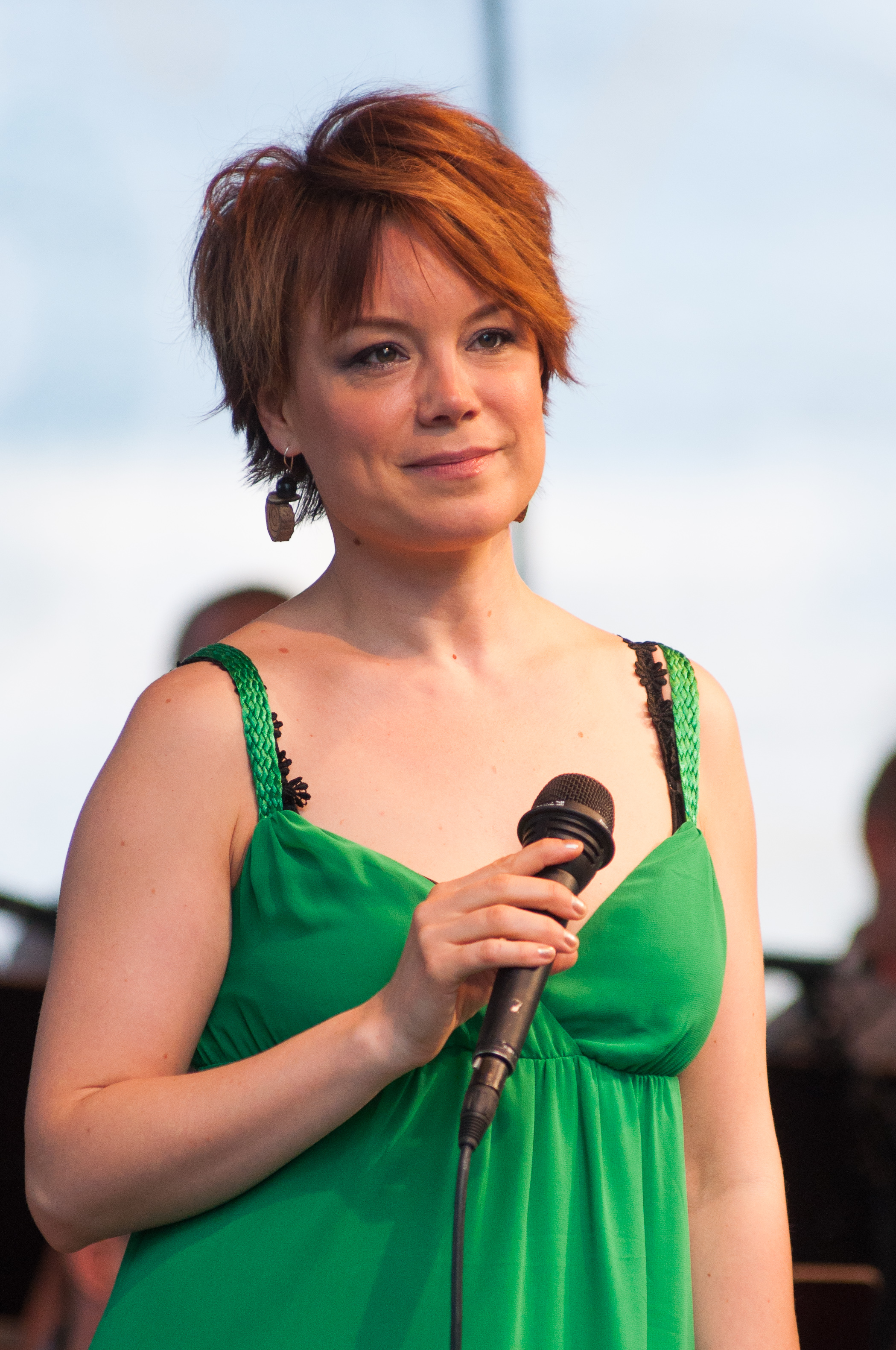 Finnish vocalist Emma Salokoski performing in Lappeenranta, Finland.